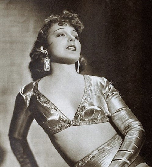 Frances Drake